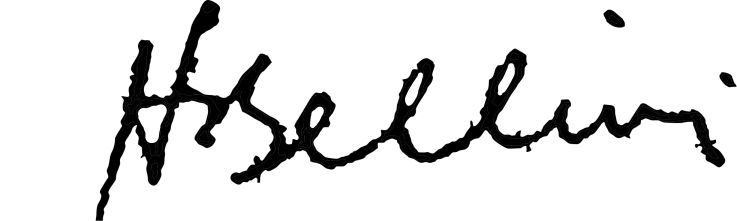 Hilderaldo Luís Bellini signaure.